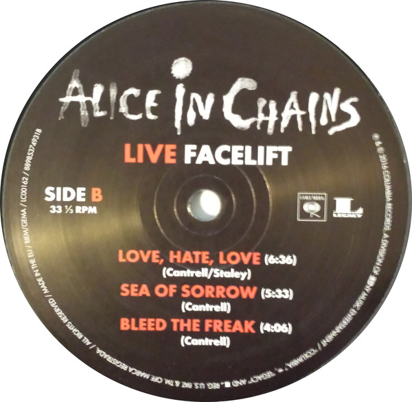 Longplay of the Alice in Chains live album Live Facelift (2016)